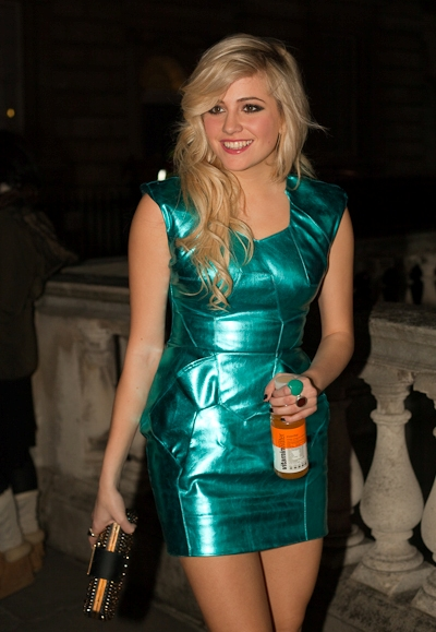 Singer Pixie Lott attending the PPQ fashion show for London Fashion Week